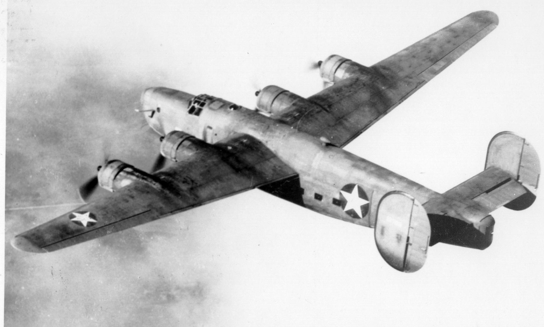 Catalog #: 01_00092051 Title: Consolidated C-87 Corporation Name: Consolidated Additional Information: USA Tags: Consolidated, C-87, Liberator Repository: San Diego Air and Space Museum Archive Designation: C-87 From the Charles M. Daniels Collection